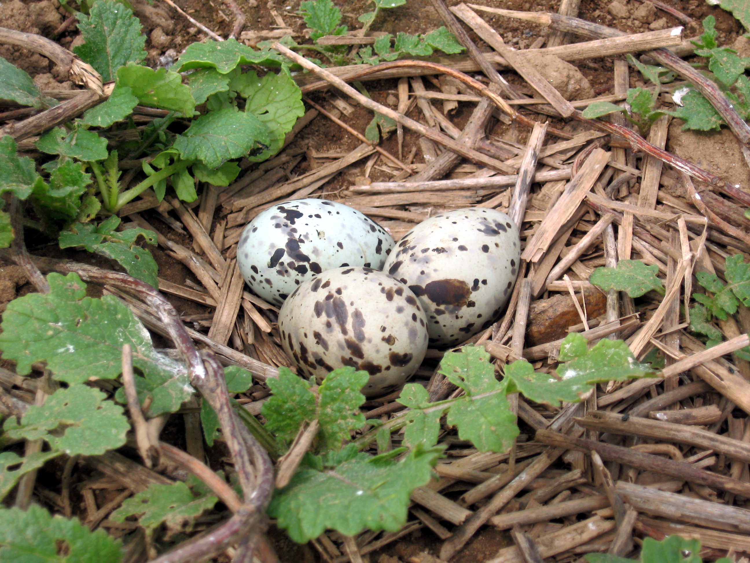 A Common Tern nest with three eggs on Great Gull Island, New York, a small island in the Long Island Sound, USA.